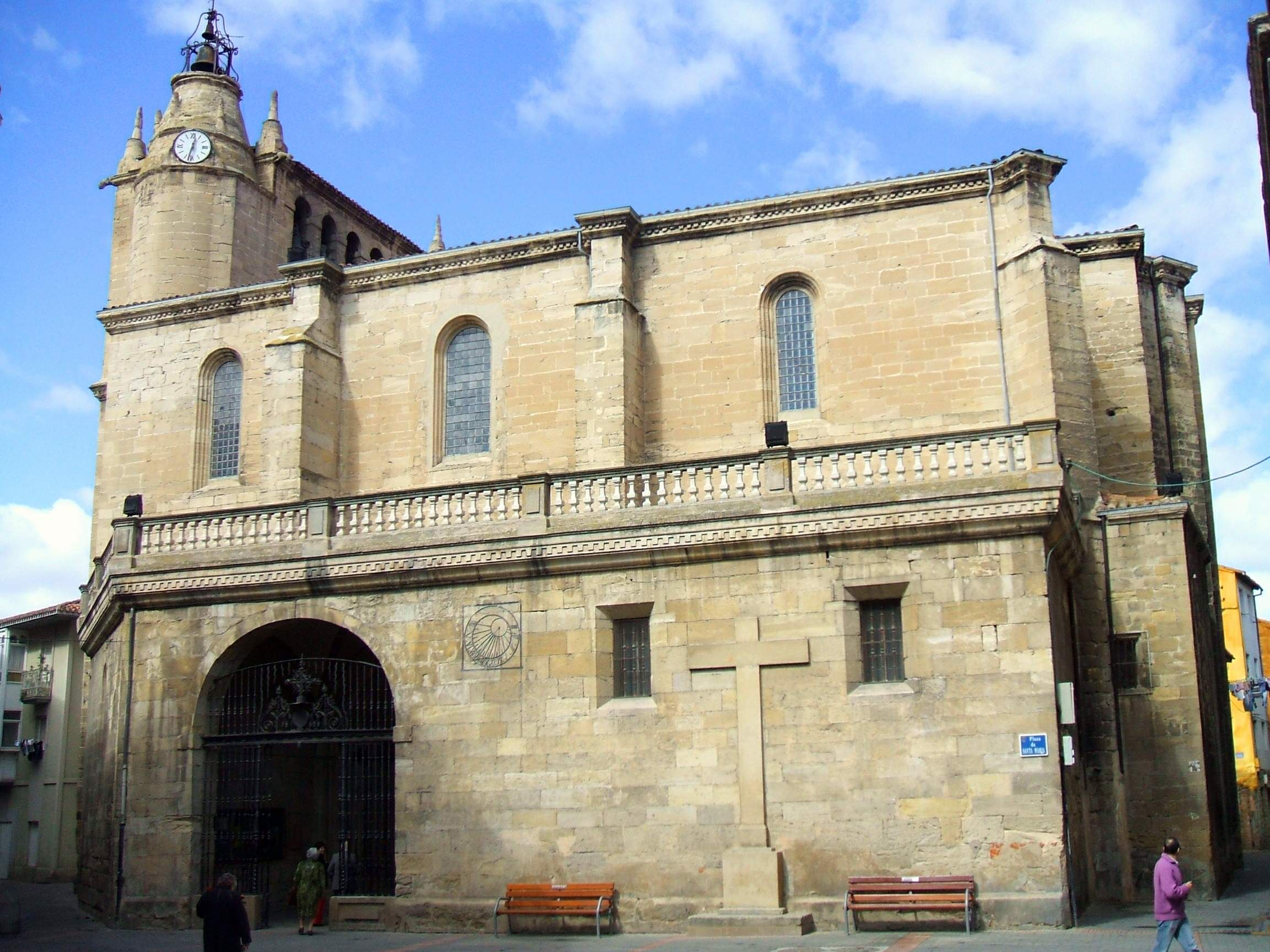 Iglesia de Santa María, Miranda de Ebro (Burgos, Castilla y León, España)